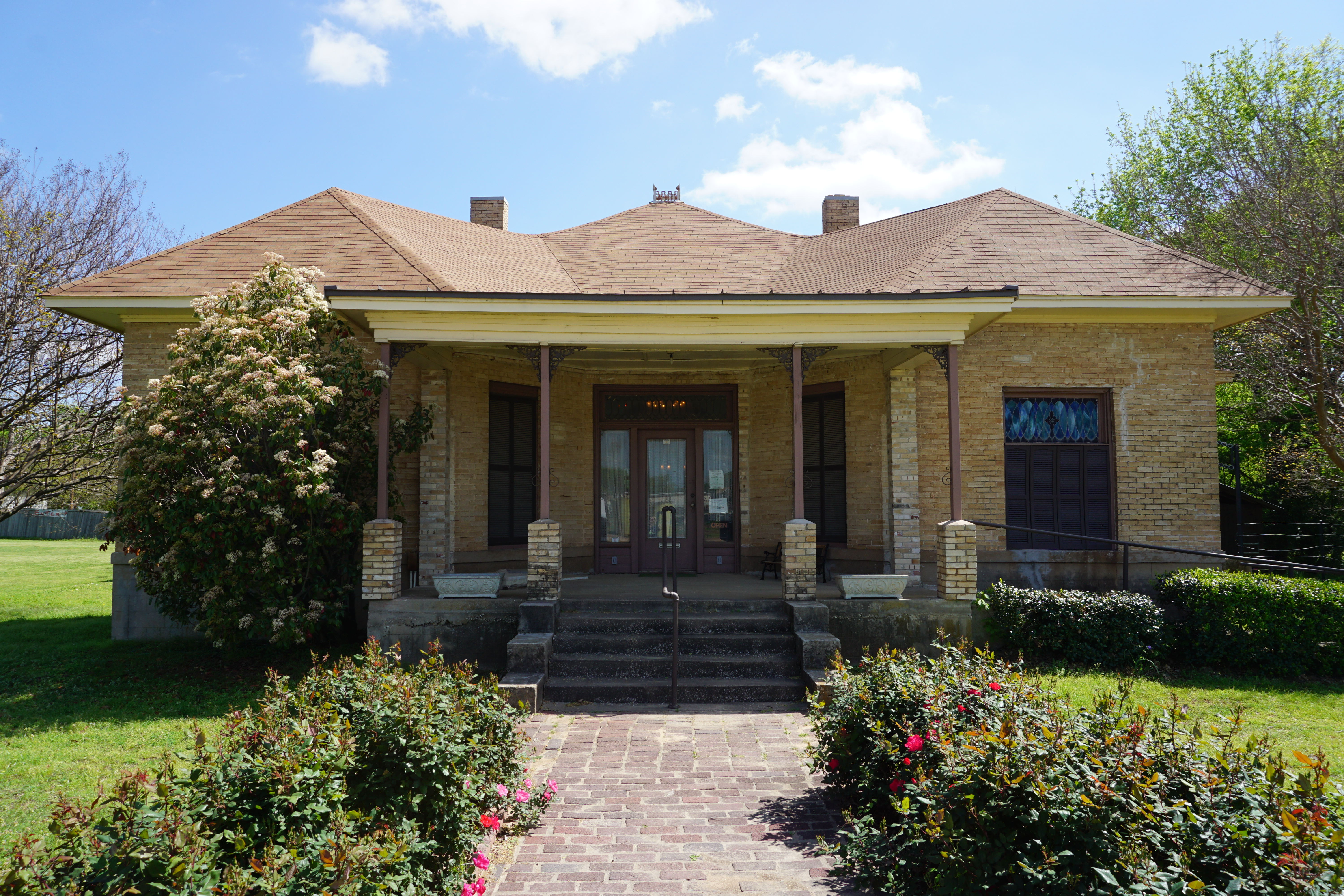 The Museum at the Hopkins County Museum and Heritage Park in Sulphur Springs, Texas (United States).